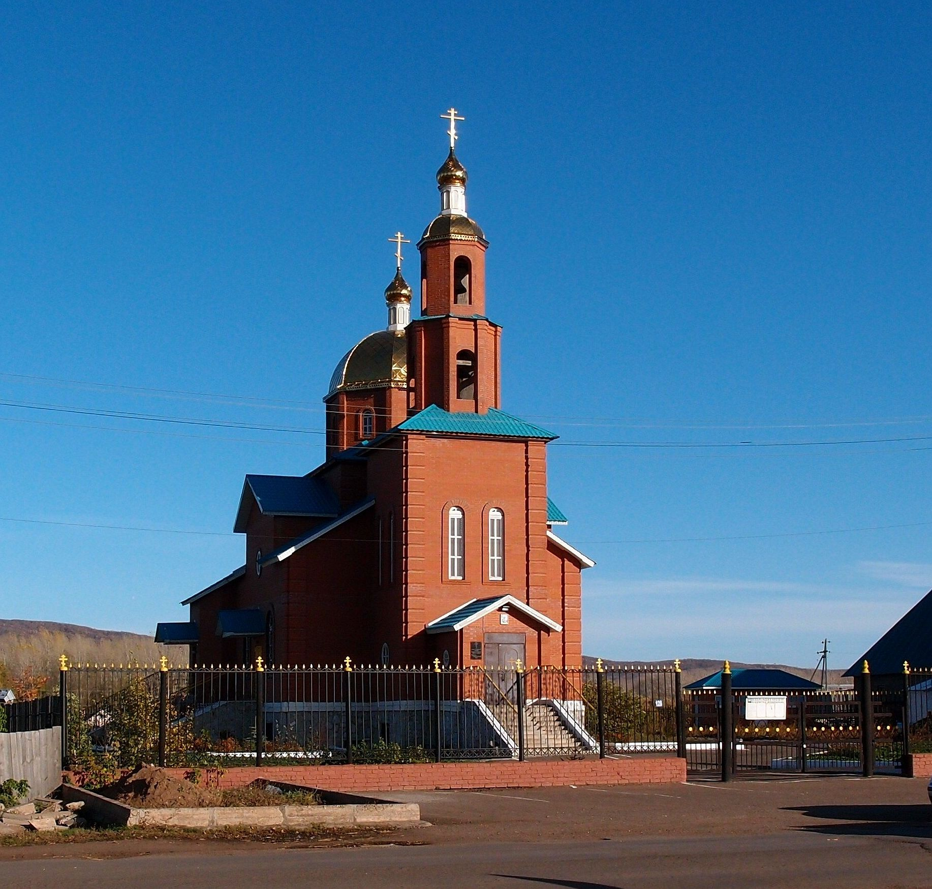 Ishimbai rayon